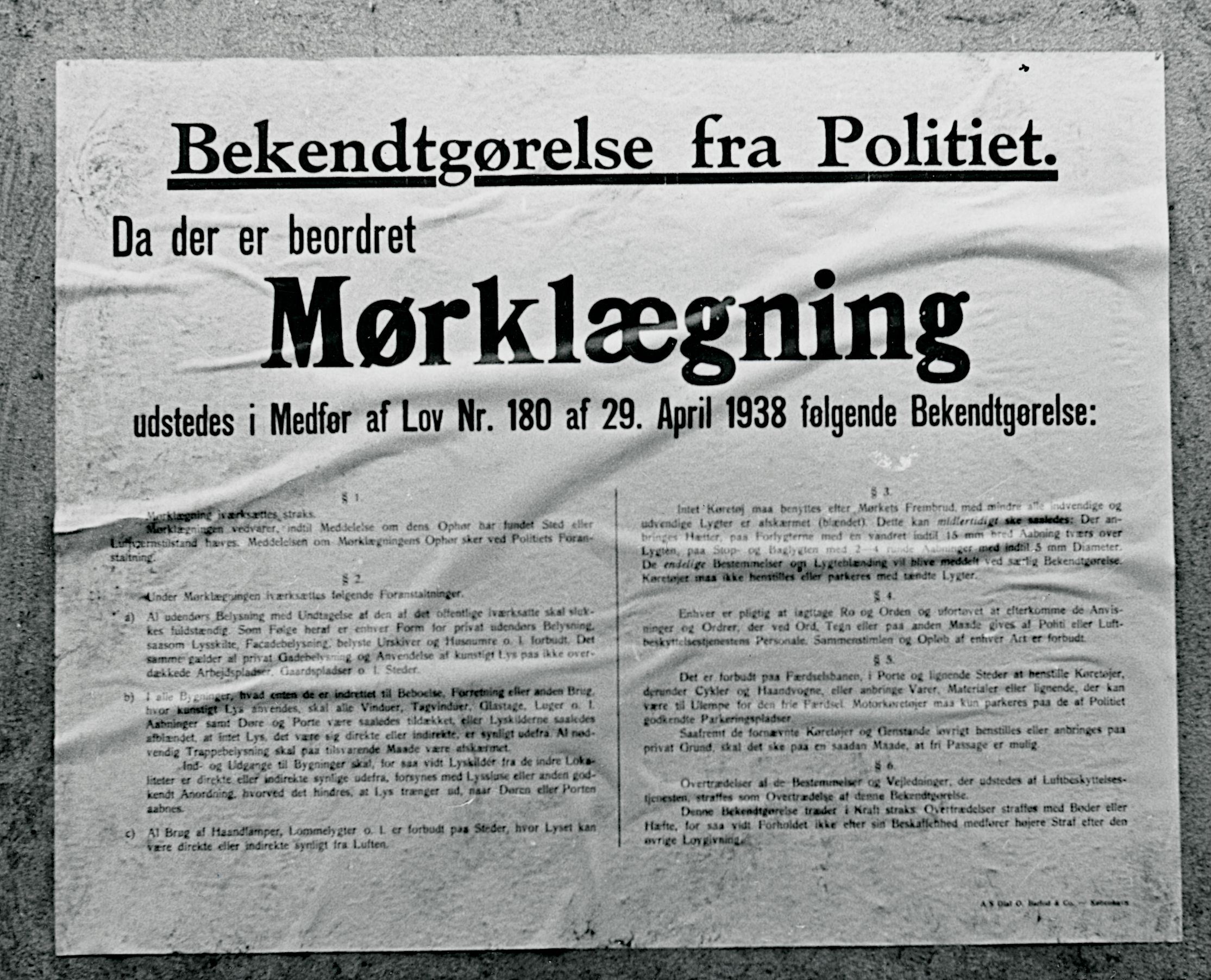 Public announcment of blackout as a result of German occupation of Denmark during WW2